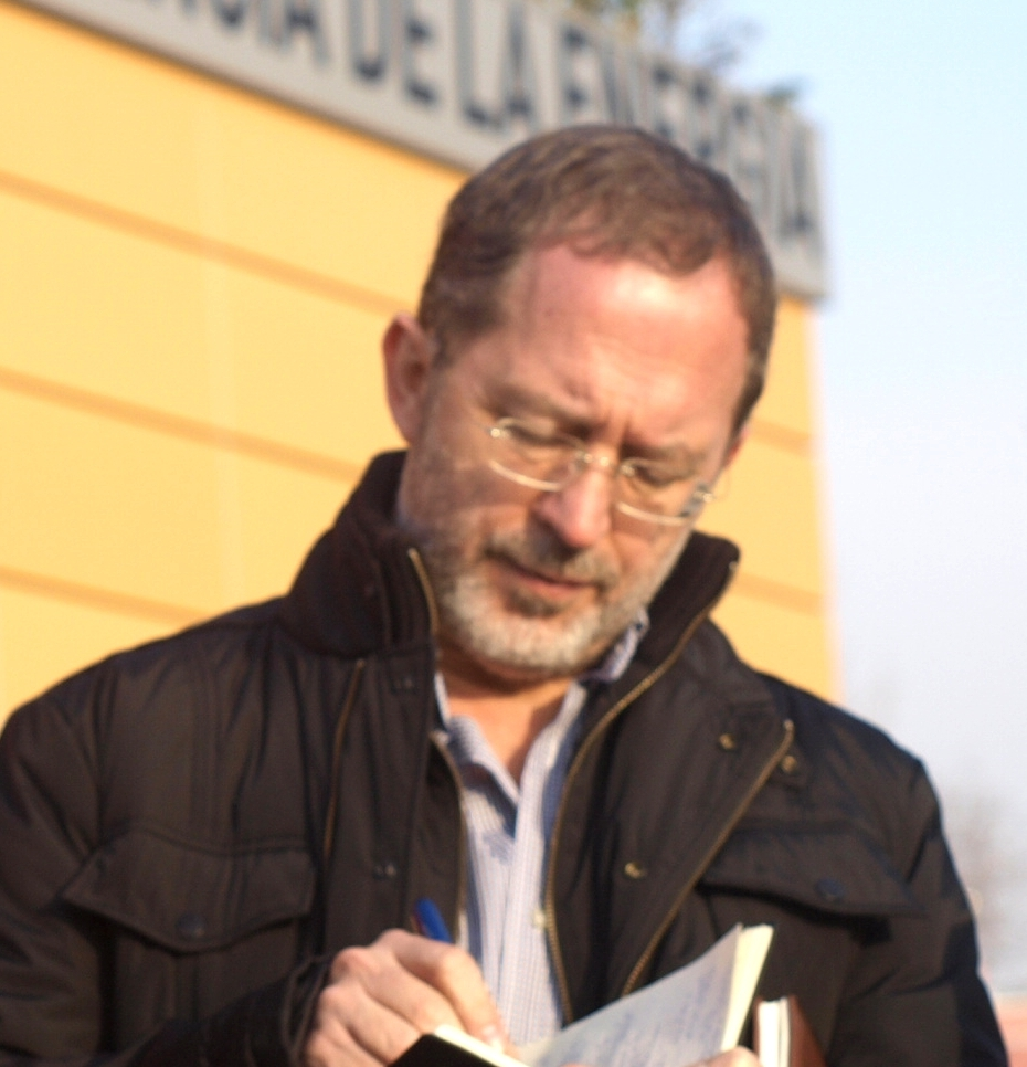 Picture of Manuel Saravia.